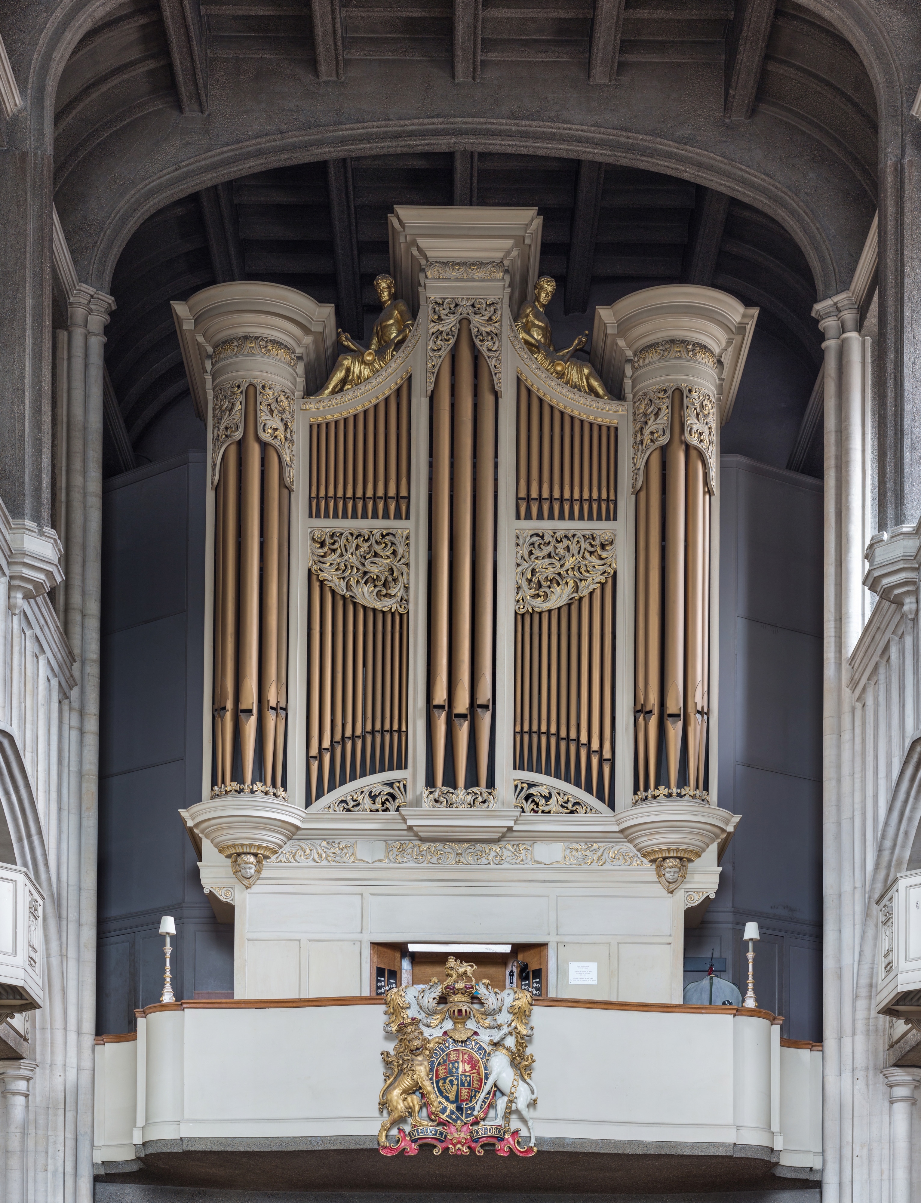 The organ at All Hallows-by-the-Tower, with the Royal Arms (Stuart) below it.